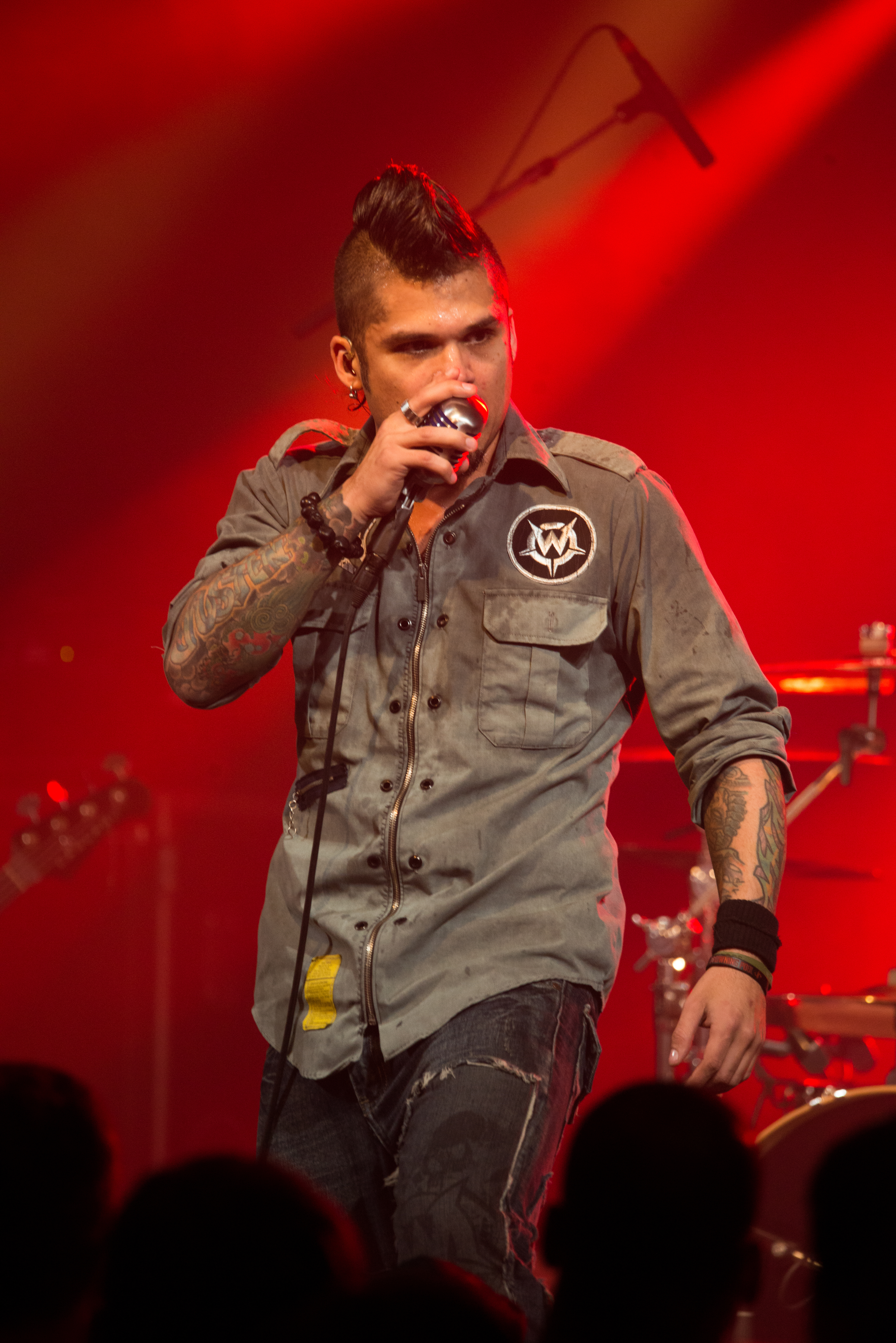 Jasen Moreno/vocals performing with Drowning Pool a new metal band, for members of the United States Army Garrison, USAG, in Boeblingen, Germany May 7, 2013, at the Panzer Kaserne fitness center. The free concert was sponsored by United Services Organization, USO.